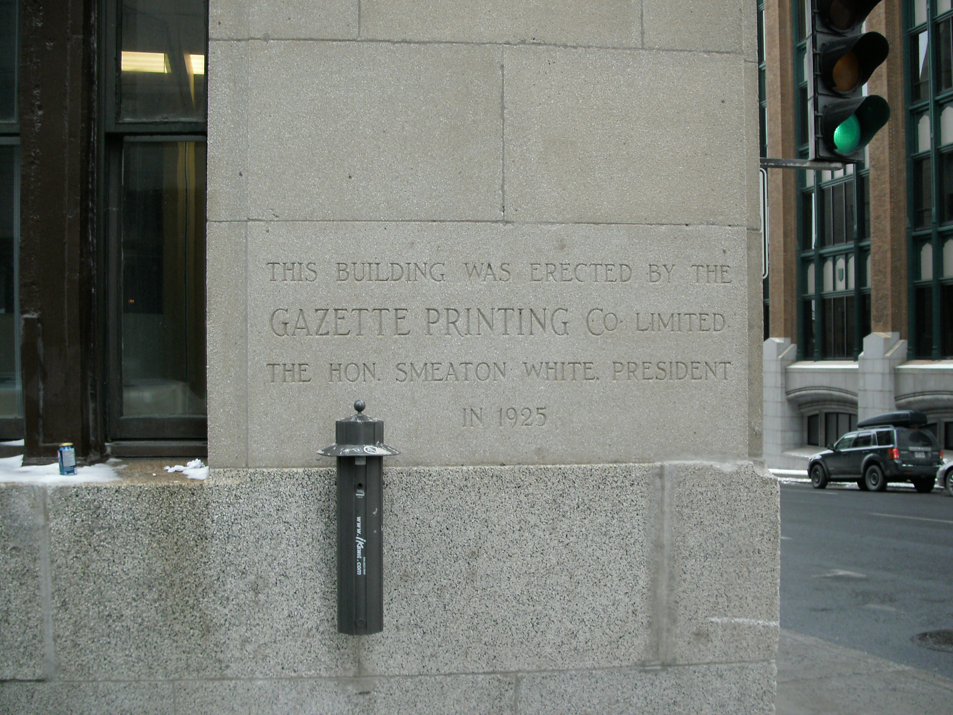 Cornerstone of former Montreal Gazette building at 1000, rue Saint-Antoine Ouest, Montreal, Quebec, Canada